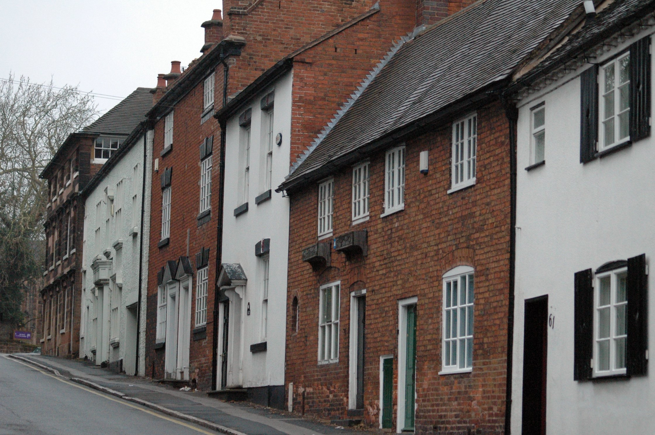 Terraced houses, converted into offices, along Coleshill Road in Sutton Coldfield, Birmingham, England